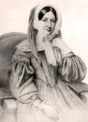 Roxandra Sturtza